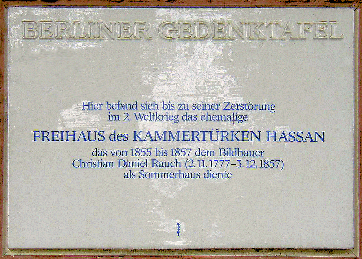 Berlin memorial plaque, Kammertürke Hassan, Schloßstraße 6, Berlin-Charlottenburg, Germany